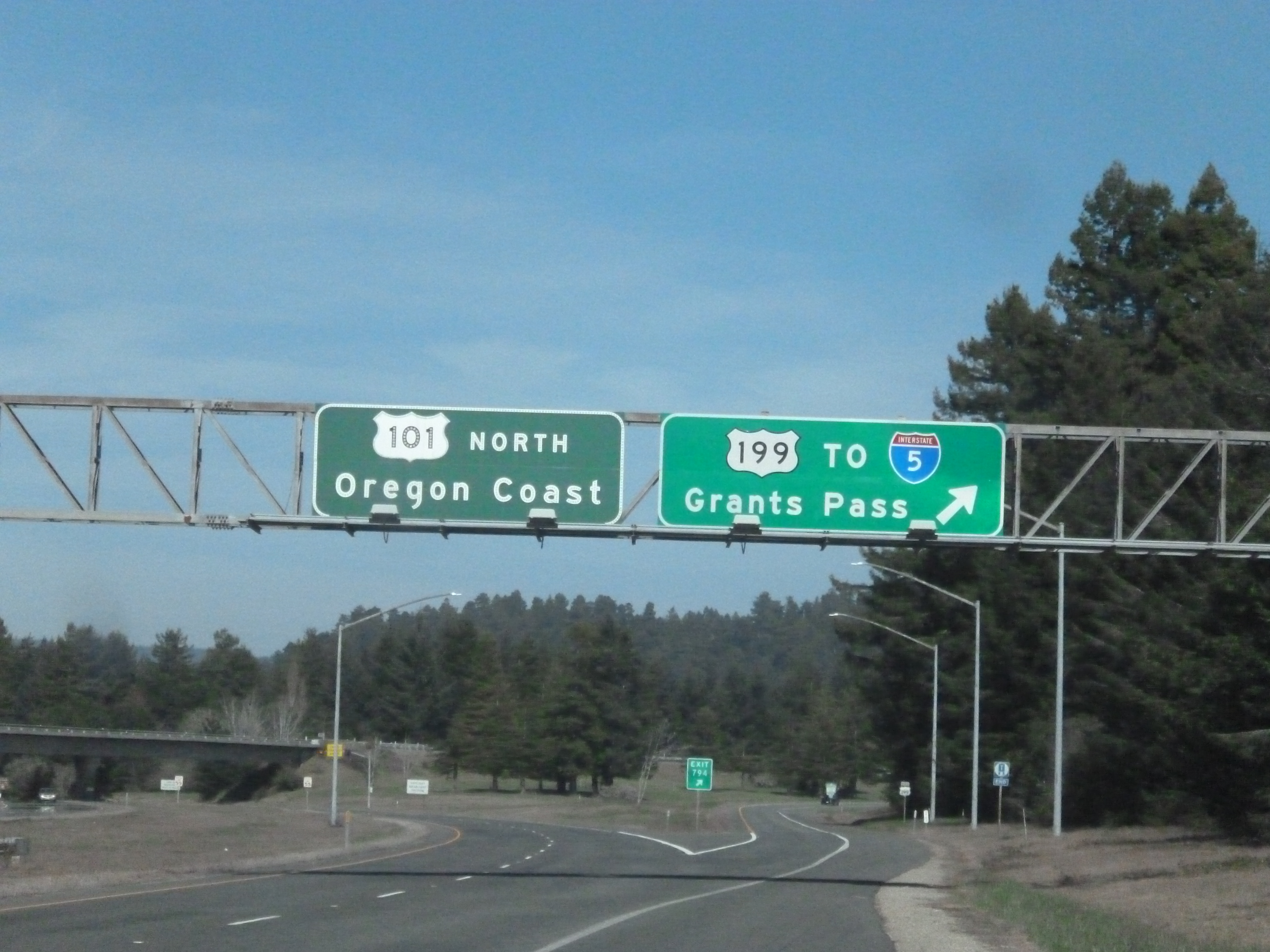 US routes 101 and 199 intersection near Crescent City, California.